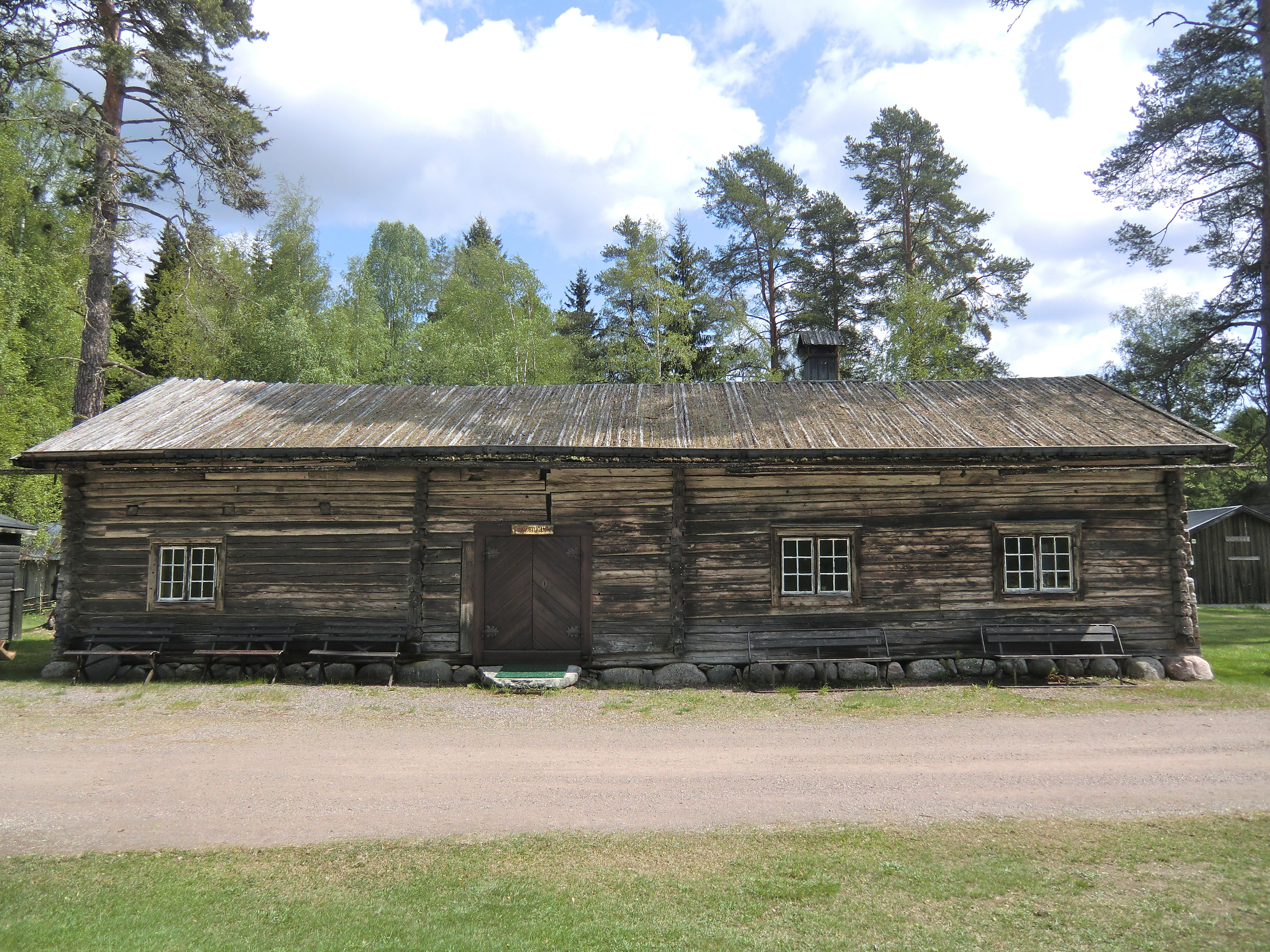 Old forest finn building.